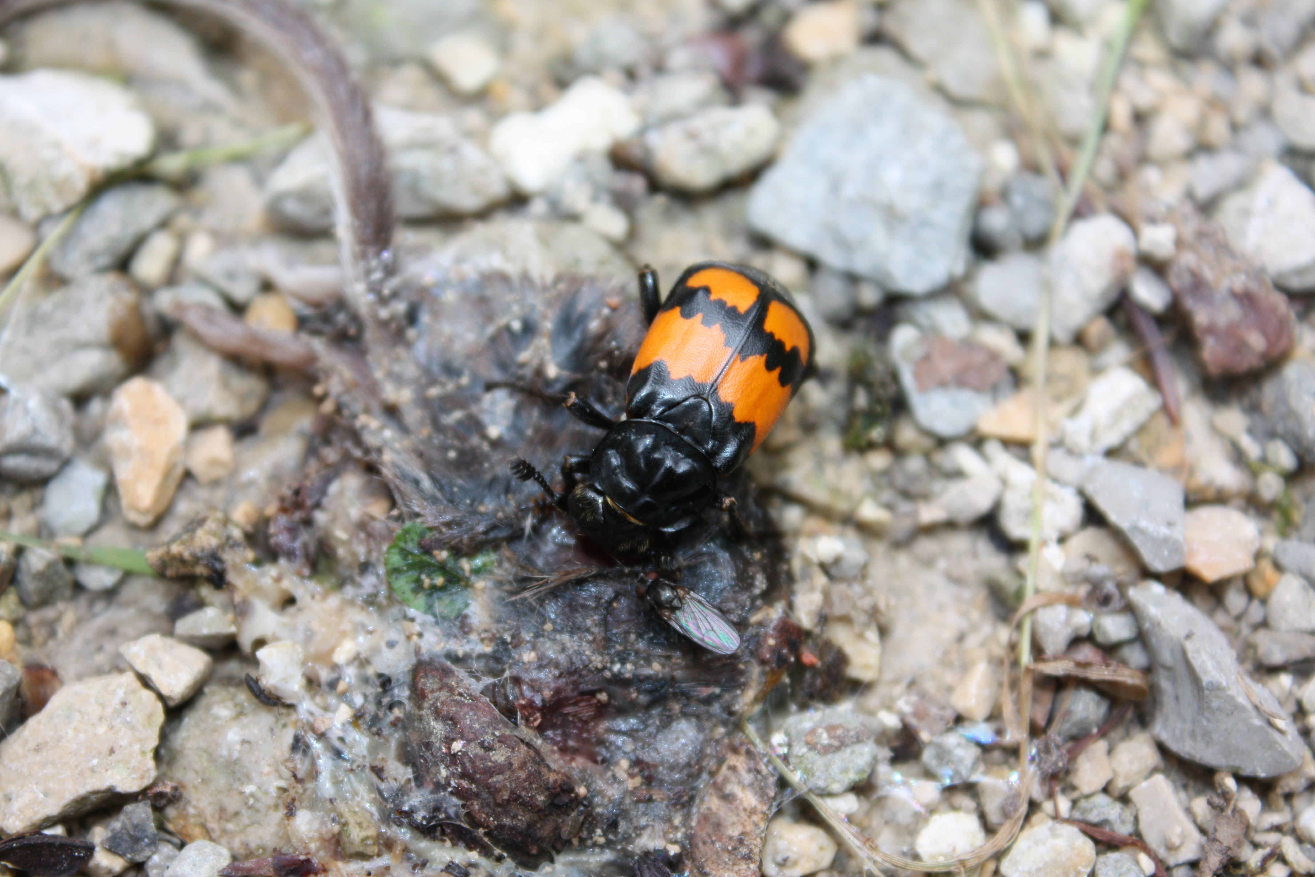 Nicrophorus vespilloides